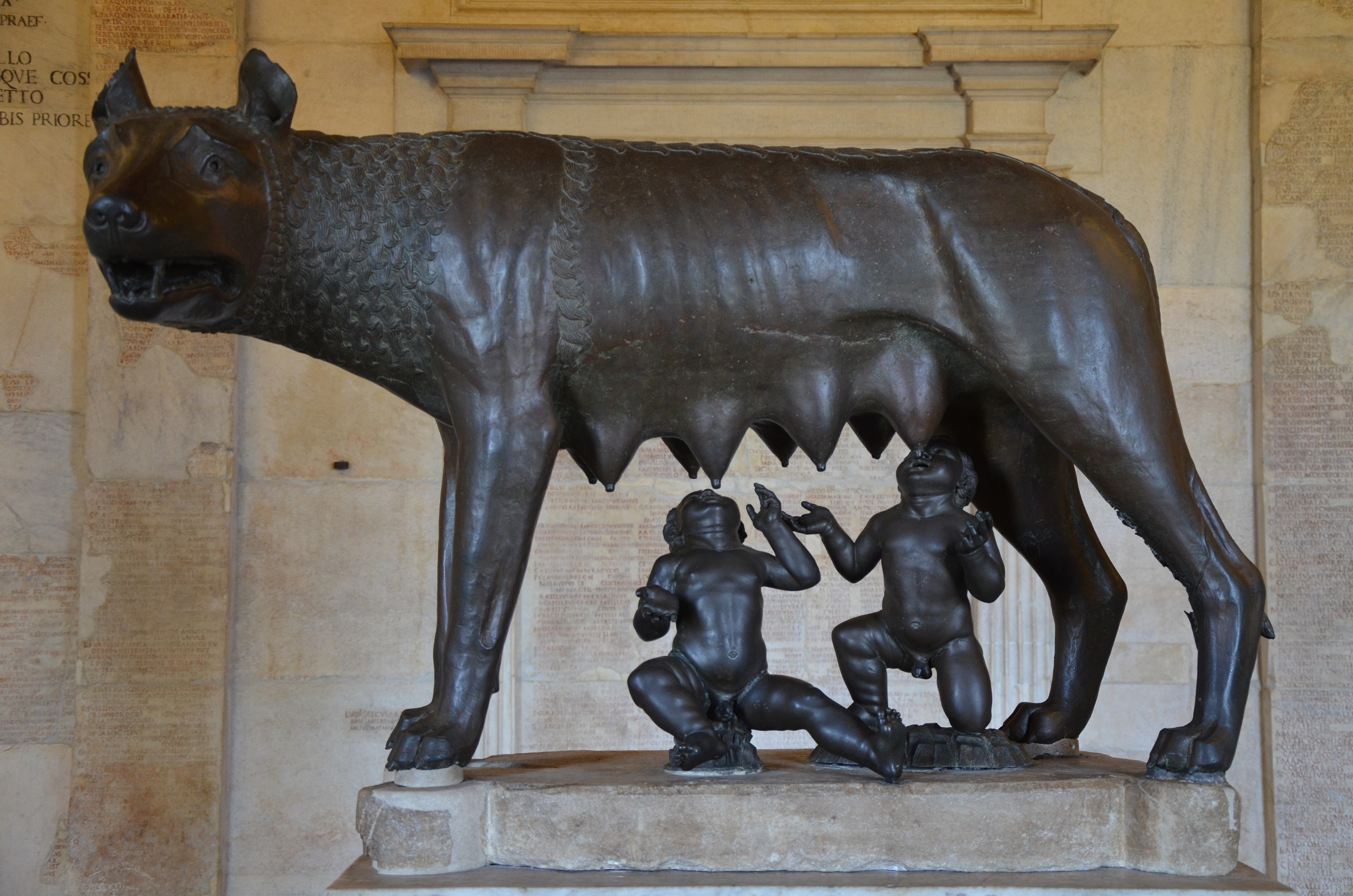 The Capitoline Wolf, Musei Capitolini, Rome.